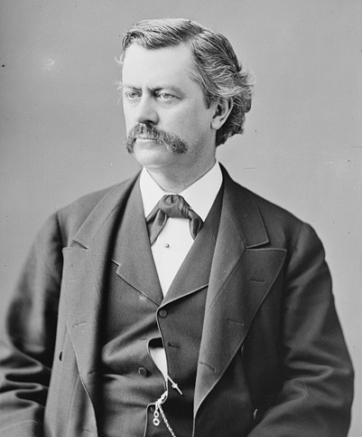 Edwin R. Meade, New York Congressman